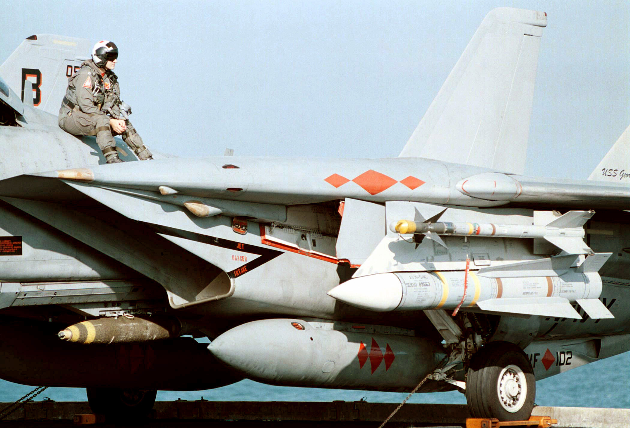 US Navy Lieutenant Steve Nevarez takes a short break from the stress of flight deck operations atop an F-14B Tomcat from Fighter Squadron VF-102. Aircraft is armed with an AIM-9L Sidewinder short range, IR (infrared) air to air missile; AIM-54C Phoenix long range, radar guided, air to air missile and a Mk 82 500 lb. bomb. The nuclear powered aircraft carrier USS George Washington (CVN-73) and VF-102 were participating Operation "Southern Watch" in the Persian Gulf in support of UN sanctions against Iraq.